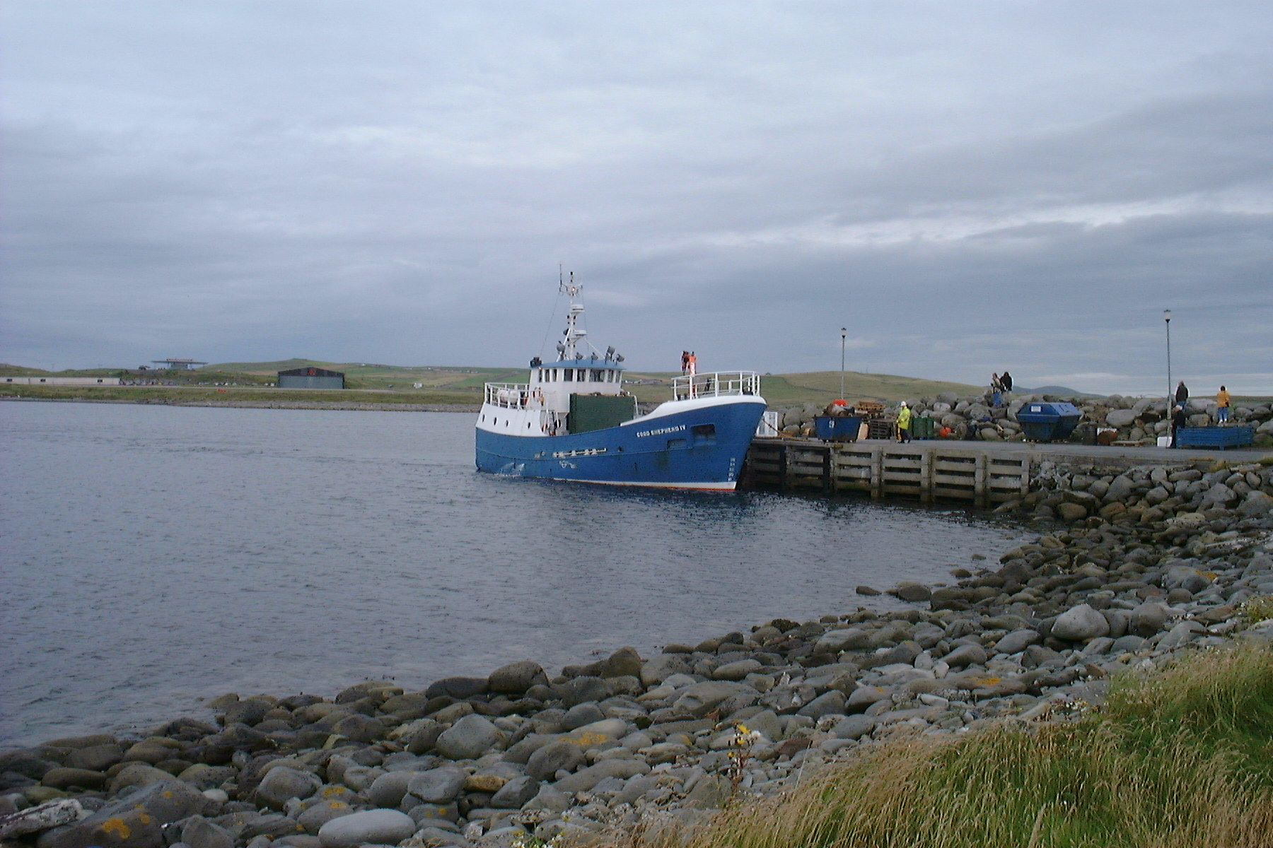 Shetland Island Council Ferry Good Shepherd IV, the ferry which connects Fair Isle with Sumburgh on the Shetland mainland. The ferry was built in 1986 by Millers, St Monance.